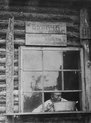 a kitchen window at the Belomorkanal construction site